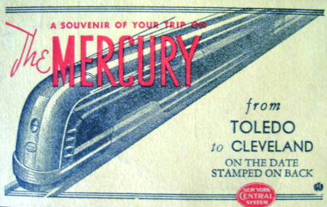 Ticket from the New York Central Cleveland Mercury, which was one of the railroad's streamlined fleet of steam locomotives. This looks to be a 4-8-4 "Mohawk" type locomotive.